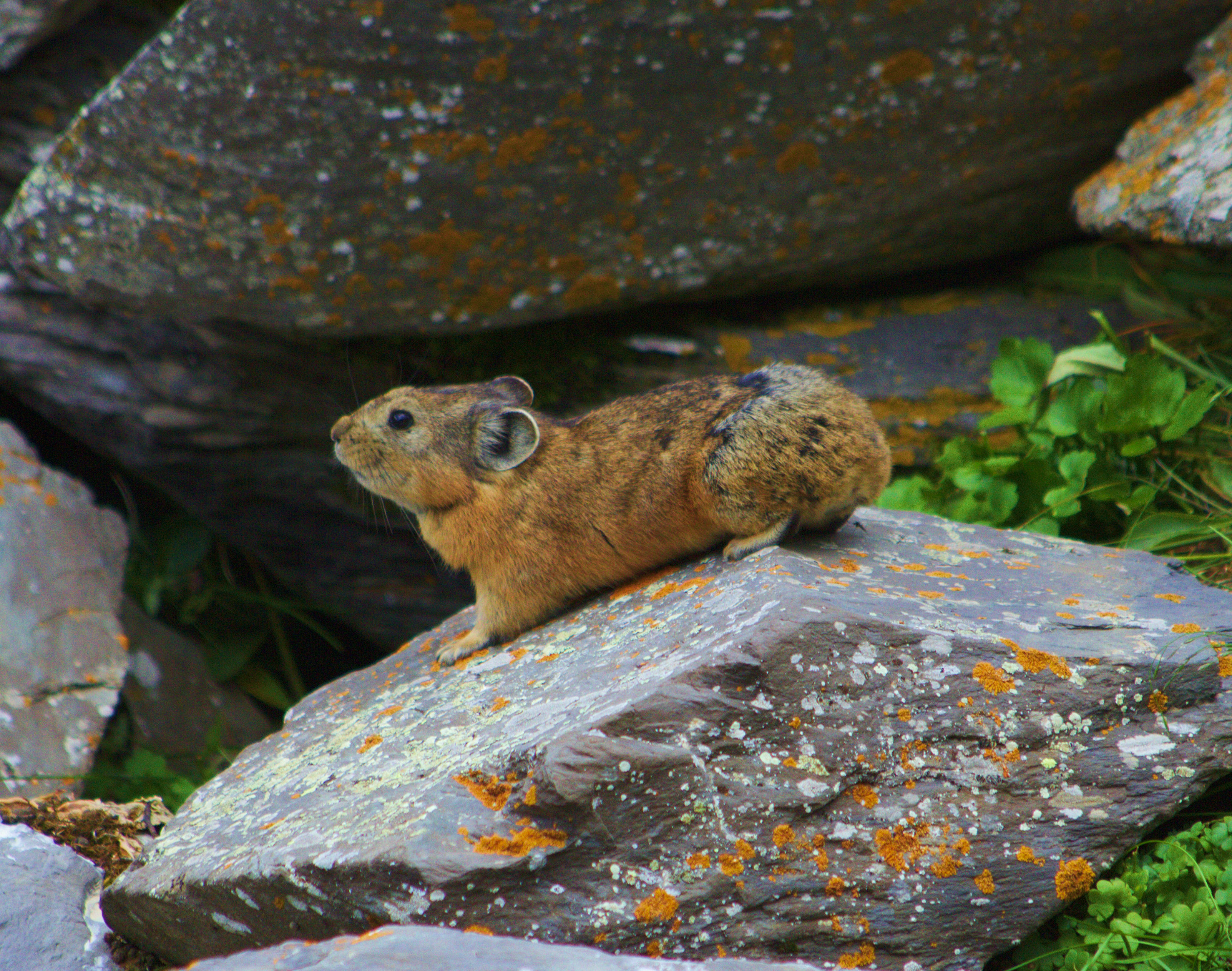 Alpine pika (Ochotona alpina), Saylyugem Mountains, Altai Mountains, 2012.